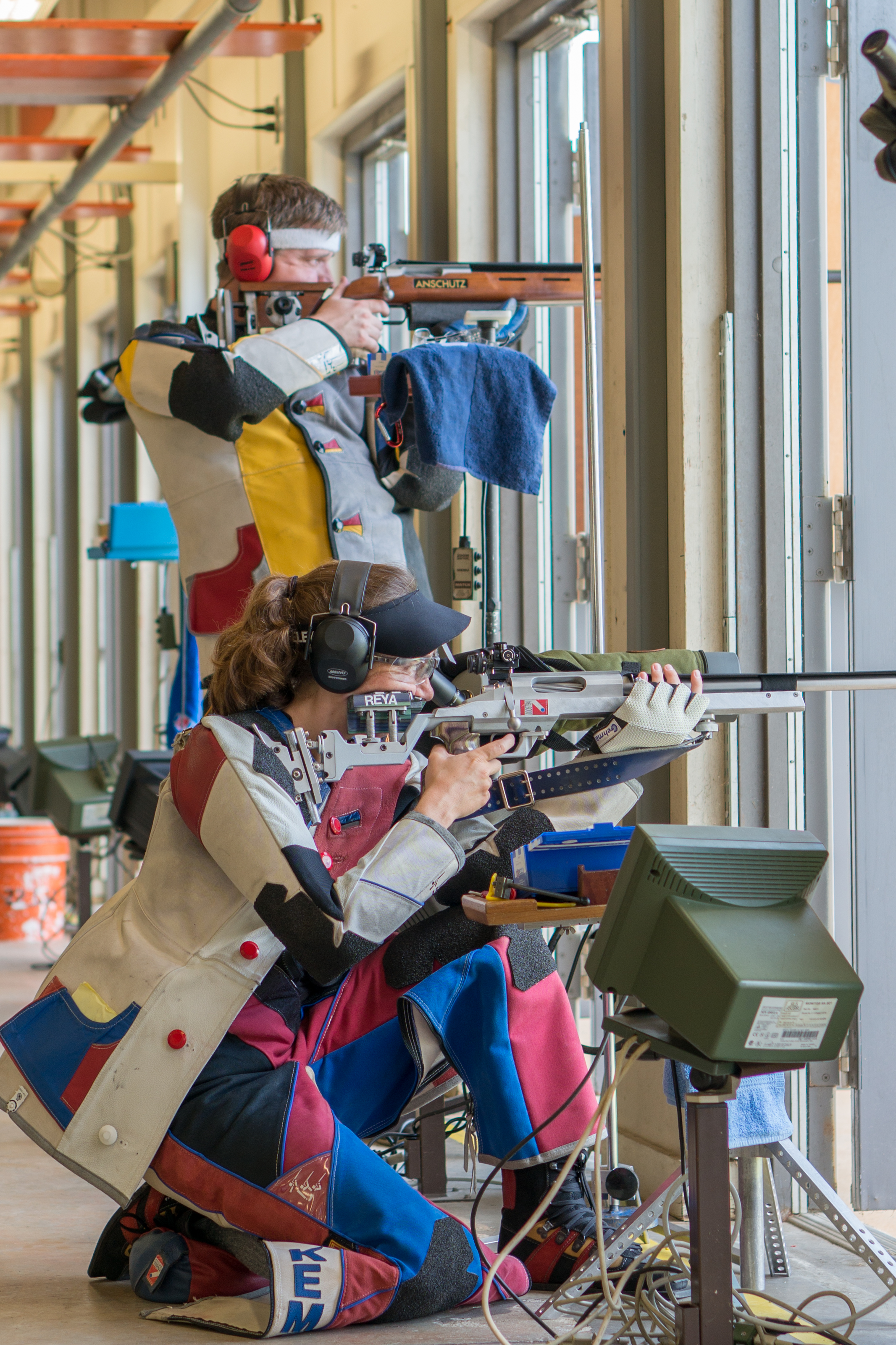 300m shooters in kneeling and standing, two of the three 300m positions. 2013 USAS 300m Championship, Fort Benning, Georgia, USA.